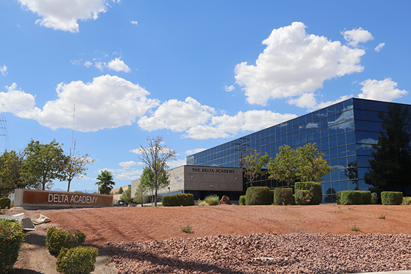 Exterior of Delta Academy in North Las Vegas, Nevada